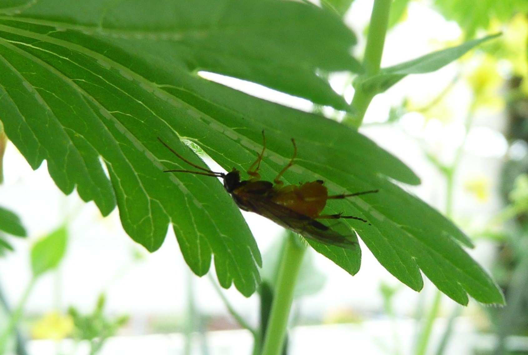 As File